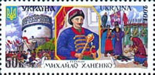 Stamp of Ukraine